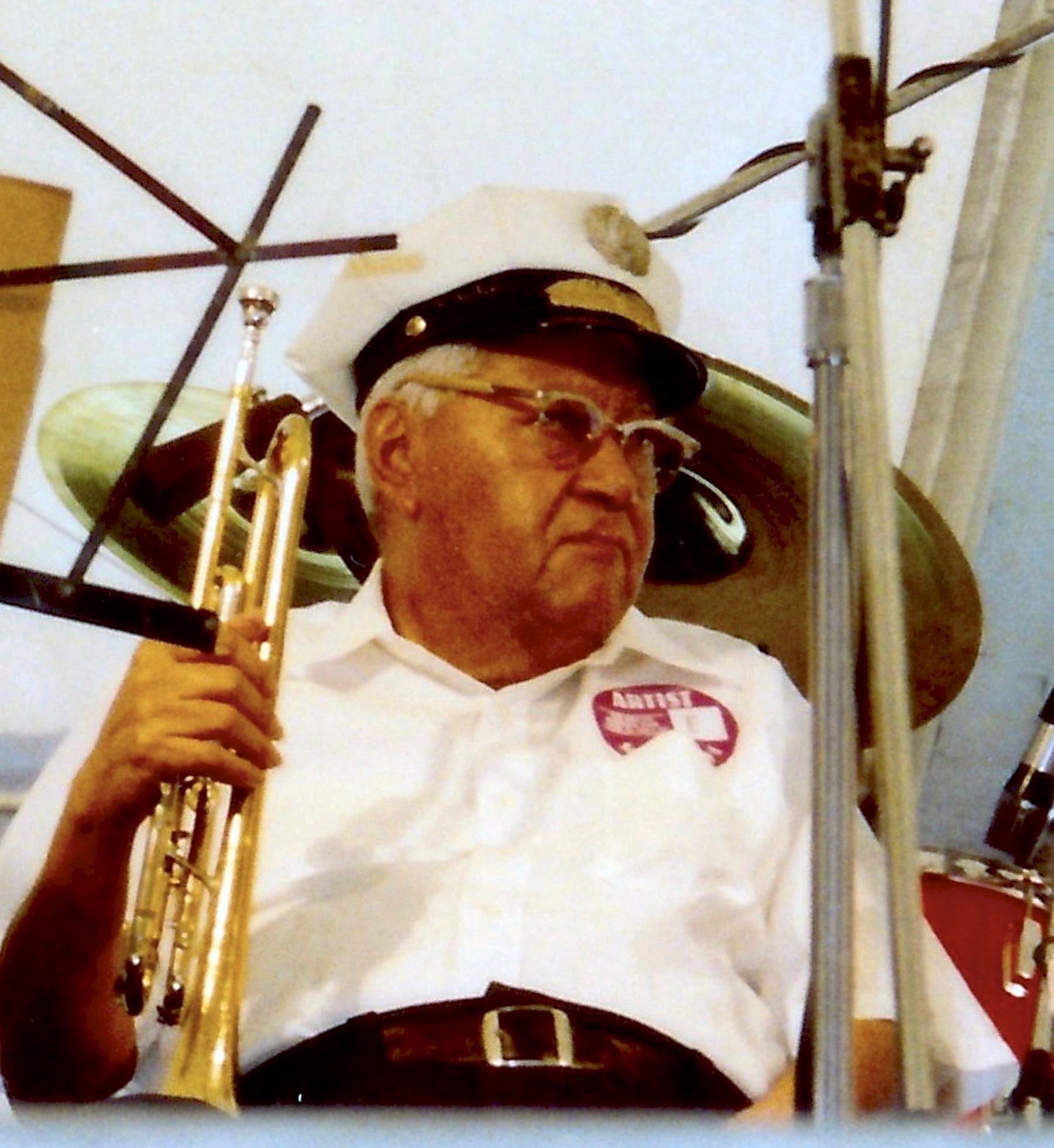 Eagle Brass Band at New Orleans Jazz & Heritage Festival. Percy Humphrey.